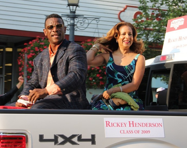 Rickey Henderson at the 2011 Baseball Hall of Fame induction parade.